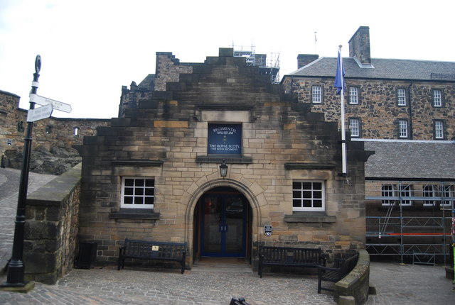 Edinburgh Castle - Royal Scots Museum. NT2573 :: Edinburgh Castle - Royal Scots Museum, near to Edinburgh, Great Britain